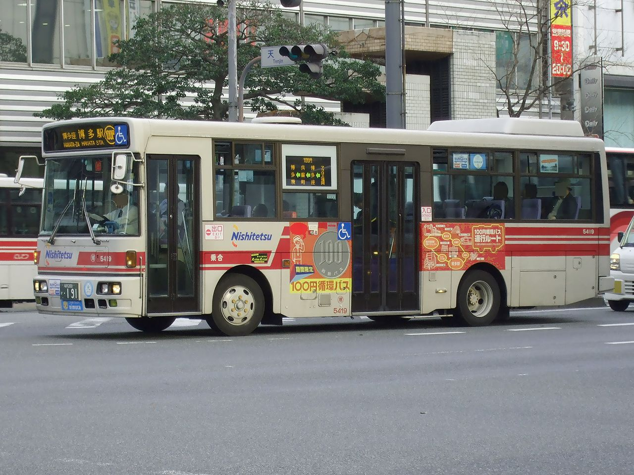 Company:Nishi Nippon Railroad Use:transit bus Belongs to:Hakata Depot Car license:福岡200 か・191 Code:5419 Chassis manufacturer:Nissan Diesel Coachbuilder:Nishinippon Shatai Kogyo Location:at Tenjin intersection, Chuo-ku, Fukuoka City, Fukuoka, Japan